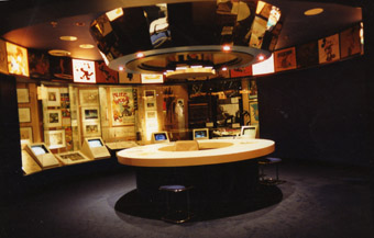 The animation area of the Museum of the Moving Image had an animated ceiling based on the Praxinoscope optical device.